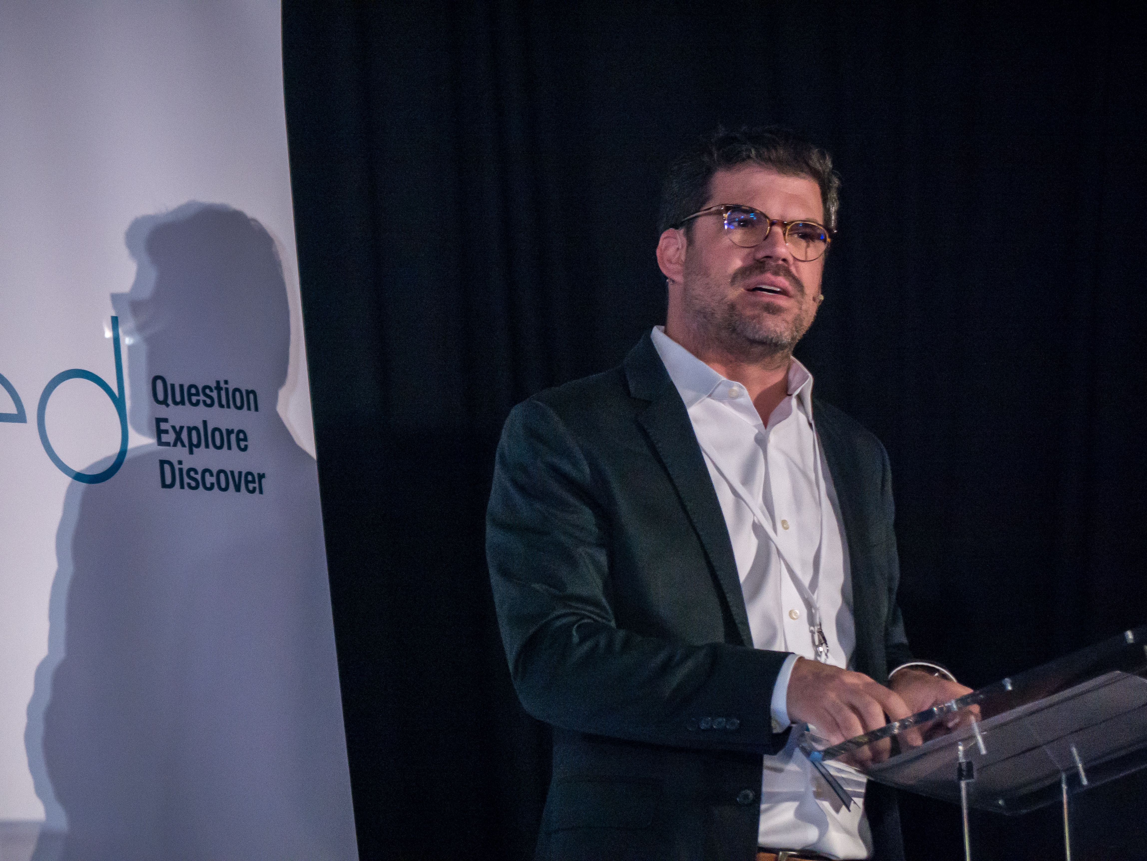 QEDCon Day One-22 QEDCon 2015